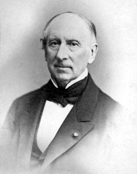 Portrait of Augustin Louis Cauchy (1789-1857): Mathematician, Physicist, and Astonomer